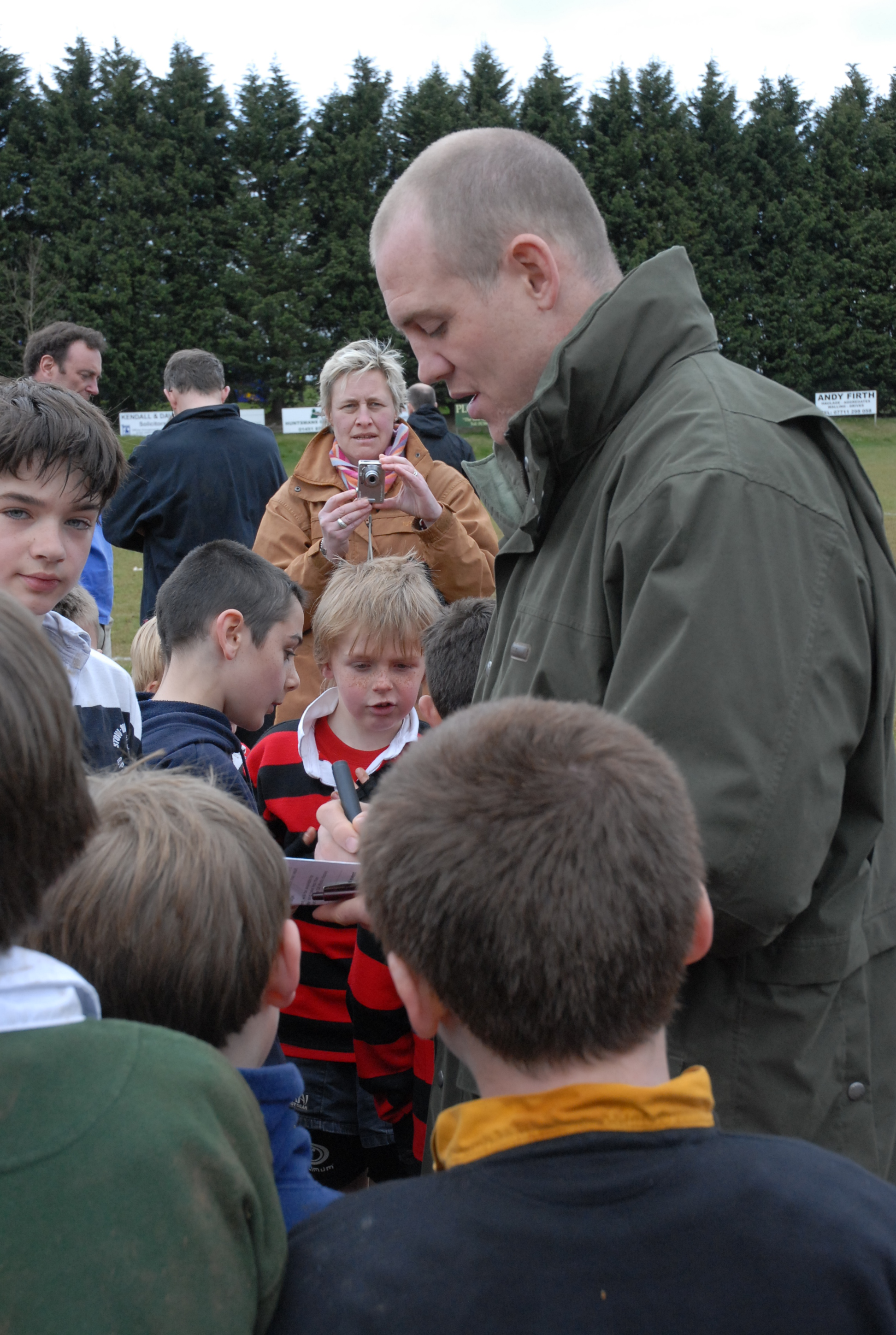 Mike Tindall signing autographs.